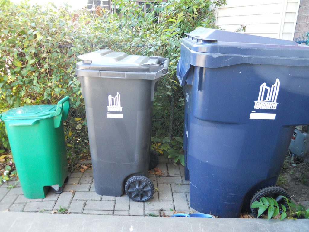 Waste bins in Toronto for municipal pick-up - the green bin is for organic waste (compost) (picked up weekly), the grey bin is for garbage (picked up bi-weekly) and the blue bin is for recycling (all recyclables) (picked up bi-weekly).